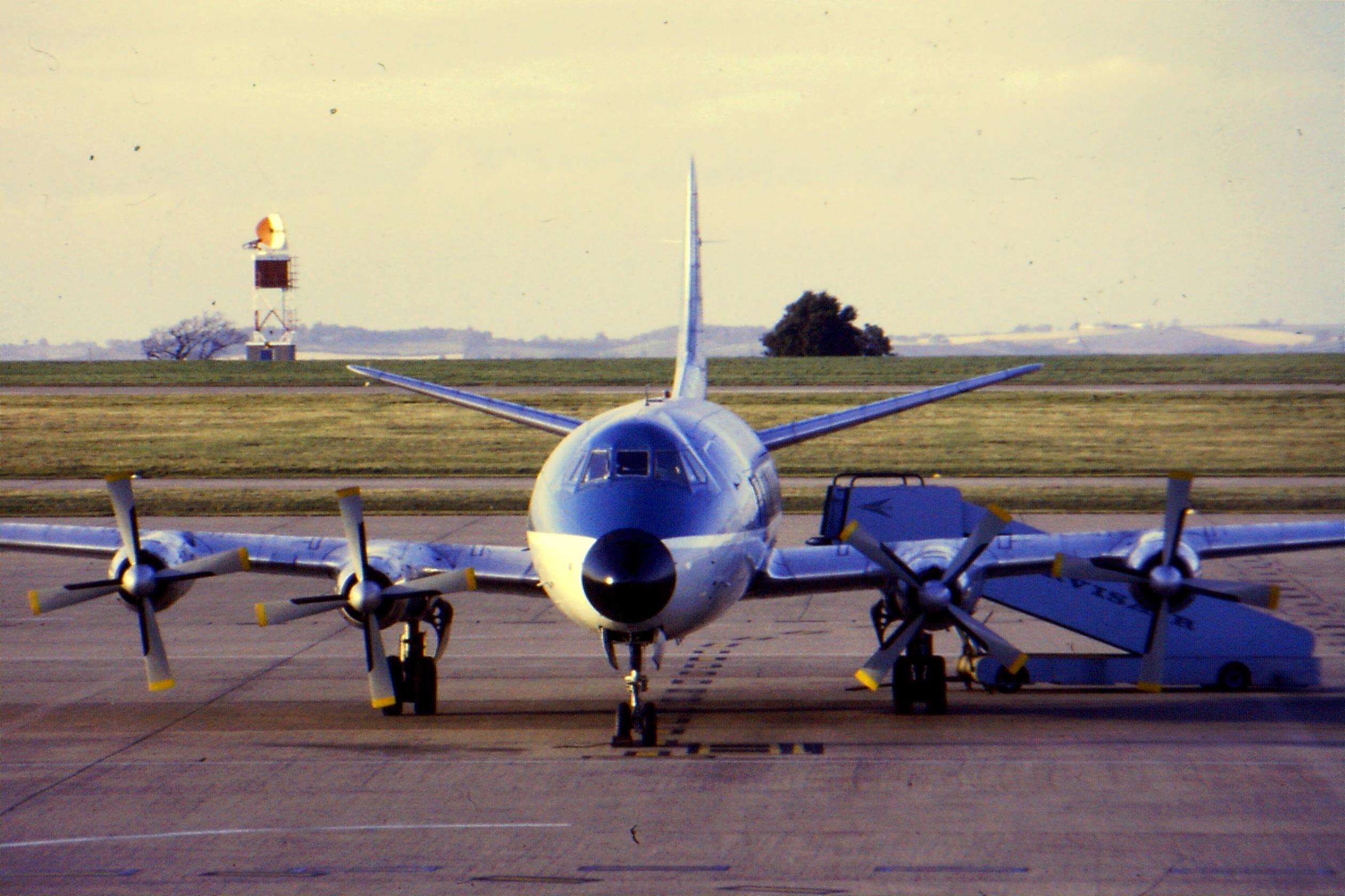 Resting between trips to European capitals and Scotland is the regional backbone of the BMA fleet, the Viscount.